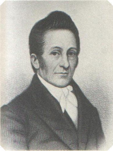 Richard Skinner (1788 1833) 9th Governor of Vermont